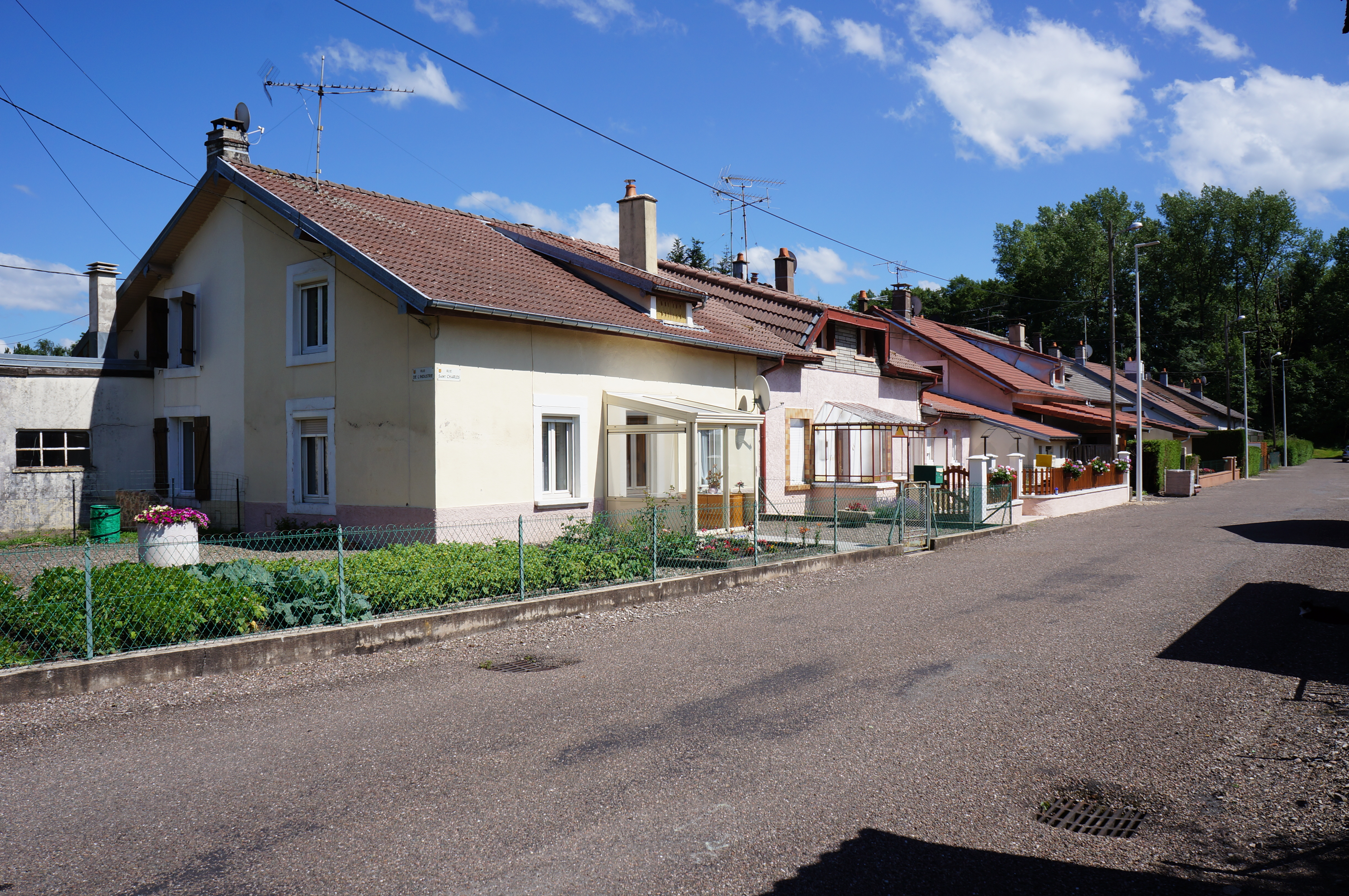 Mining town of St. Charles coal of Ronchamp in Haute-Saone (eastern France).Object location47° 42′ 09.42″ N, 6° 38′ 40.74″ E